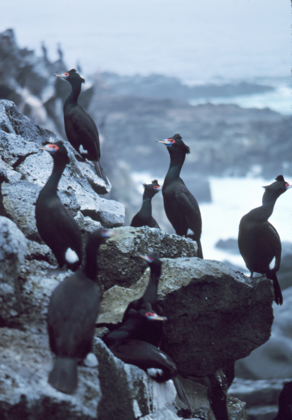 Red-faced Cormorants, Pribilof Islands, Alaska